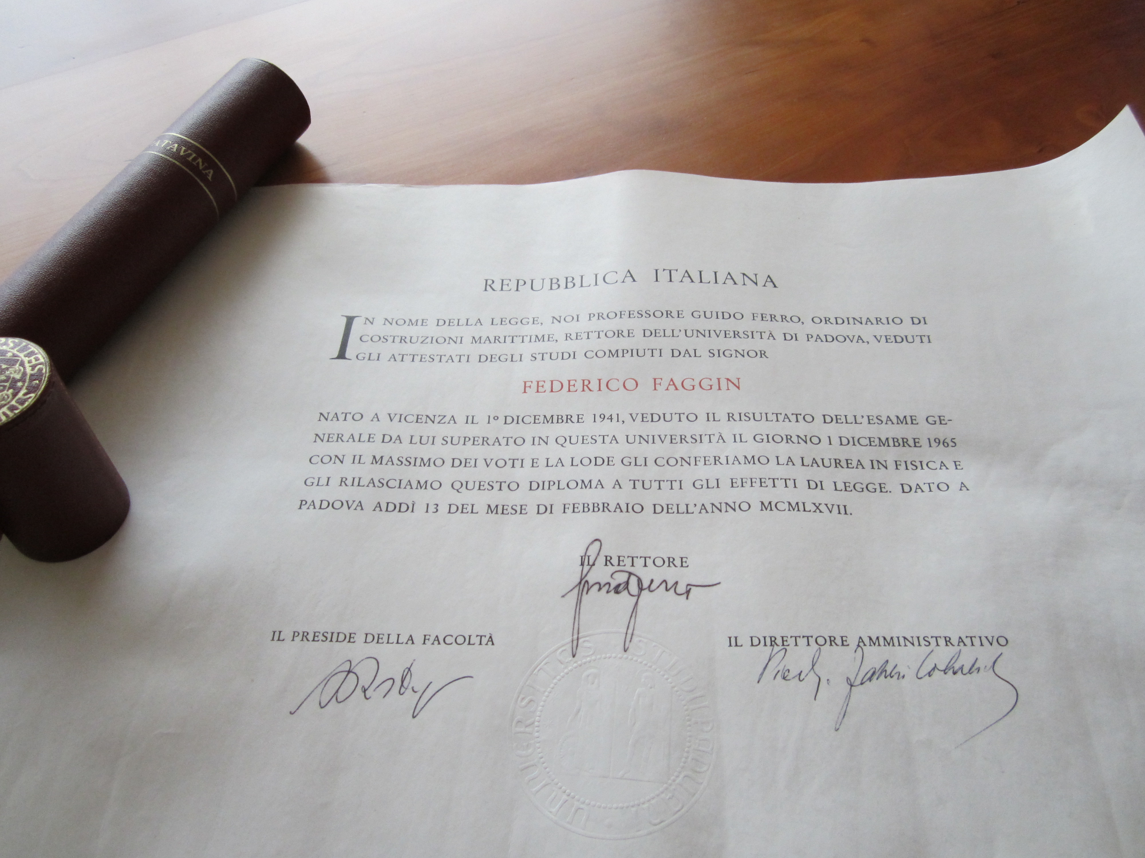 picture of Federico Faggin laurea document from Padua University. Born in Vicenza and received a degree in Physics summa cum laude